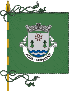 Flag of Atães parish, Guimarães municipality (Portugal)